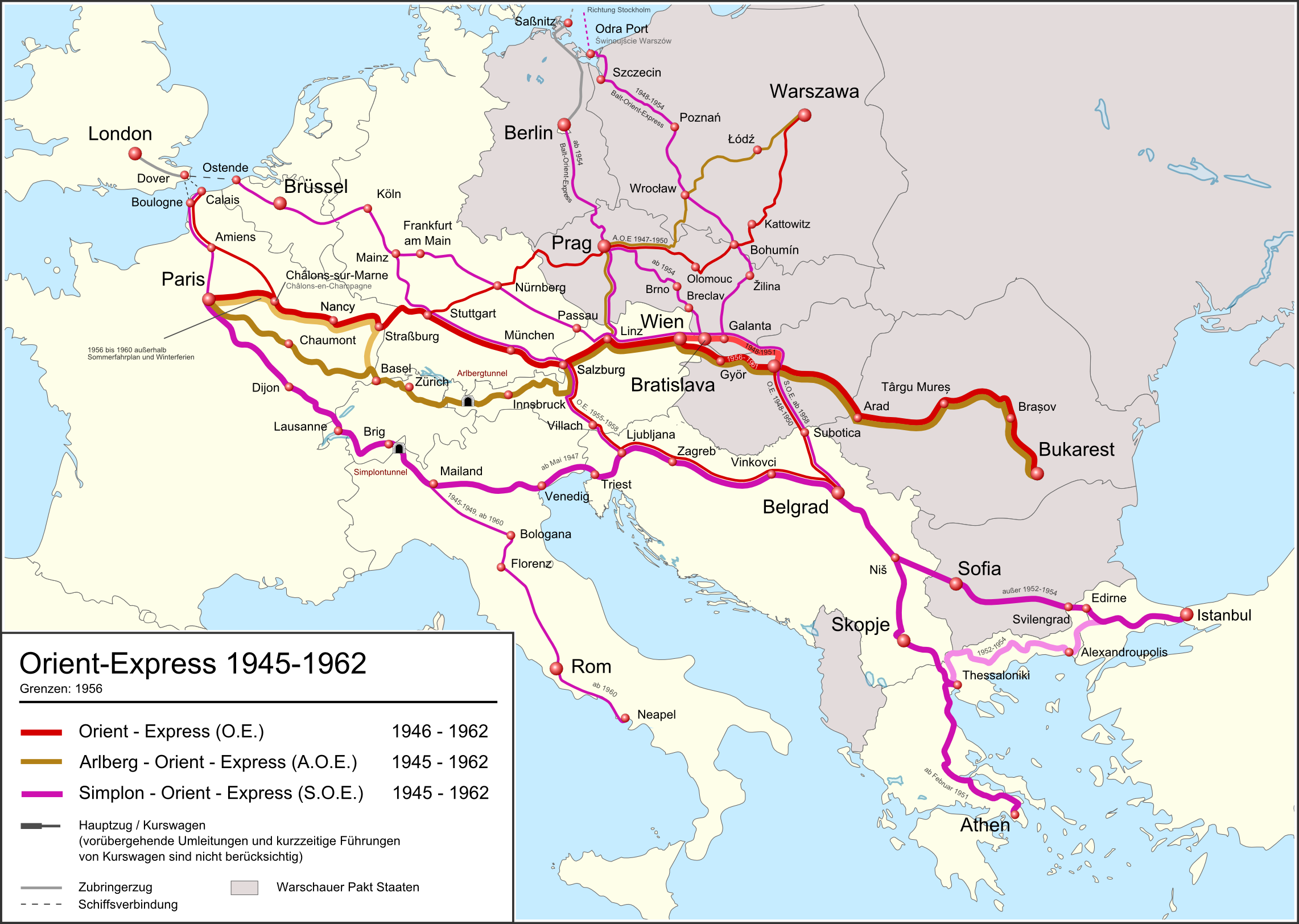 Route of the Orient Express from 1945 to 1962. Borders as per 1956.